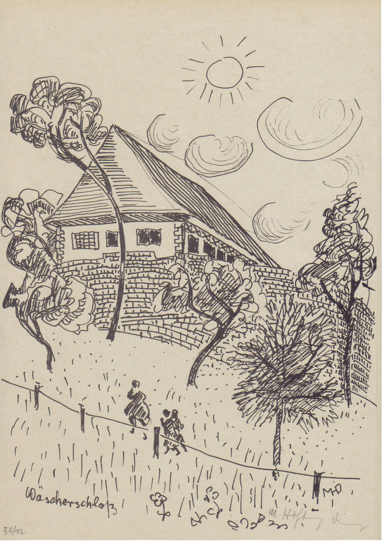 Wäscherschloss, ink drawing, 20 x 30 cm